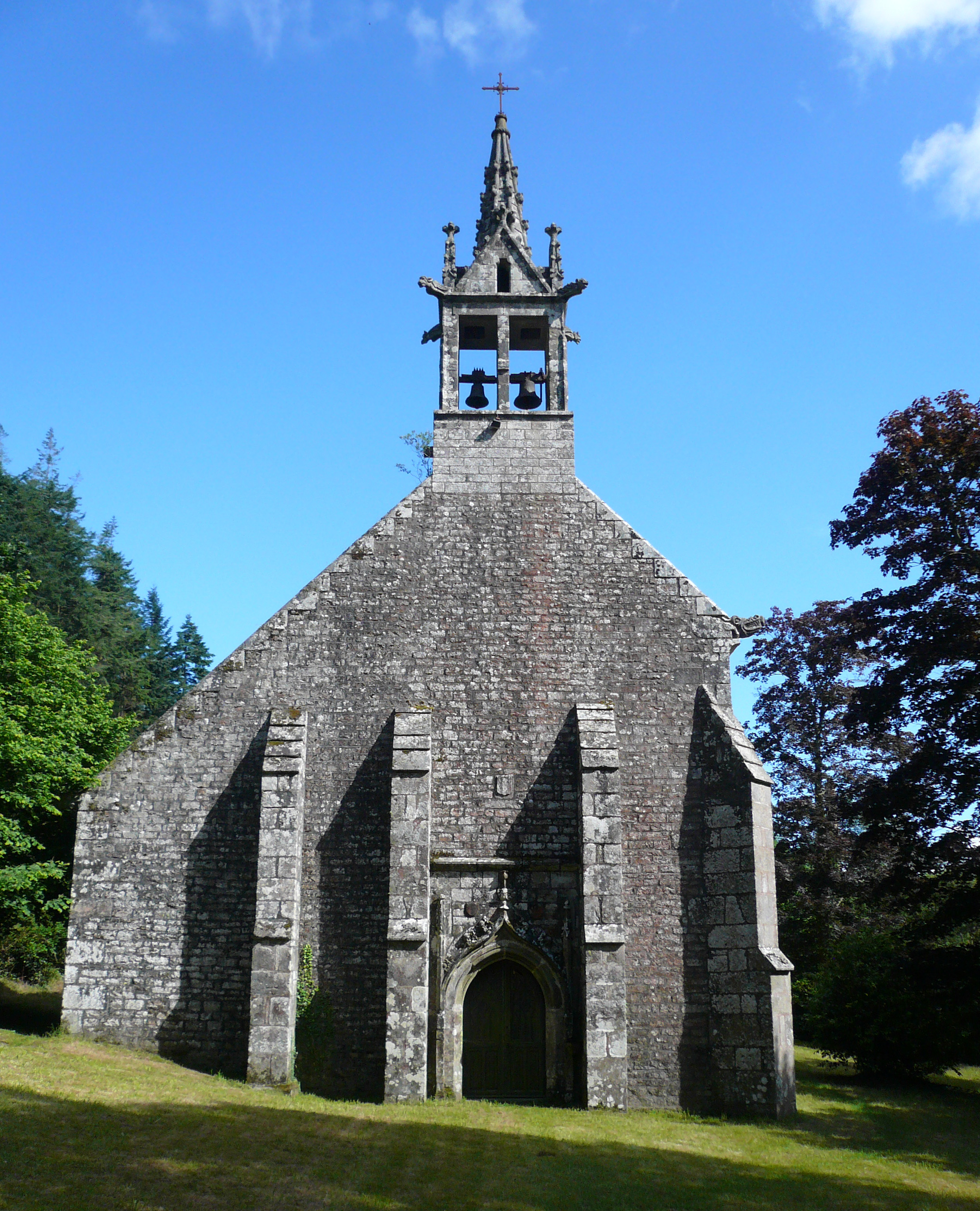 Chapel of Saint Thérèse of the Child Jesus, near Cascadec paper factory, in Scaër, Finistère, Brittany, France.